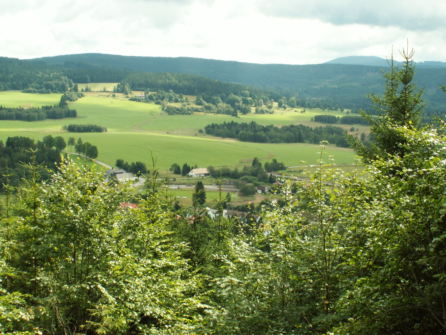 View Observation tower Vyhlídka near Borová Lada to Boubín in Šumava Mts., Czech Republic